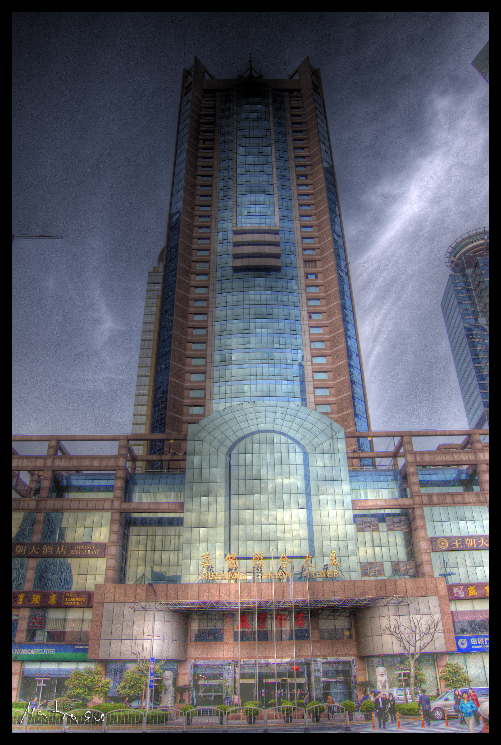 Huaneng Union Tower in Pudong, Shanghai